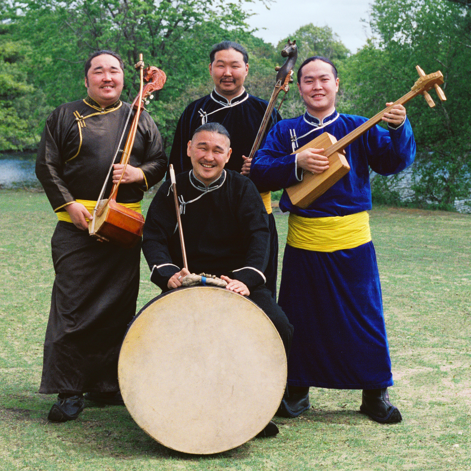 Alash Ensemble: Mai-ool Sedip, Bady-Dorzhu Ondar, Ayan-ool Sam, Ayan Shirizhik (seated), in Boston, MA, USA, May 2007